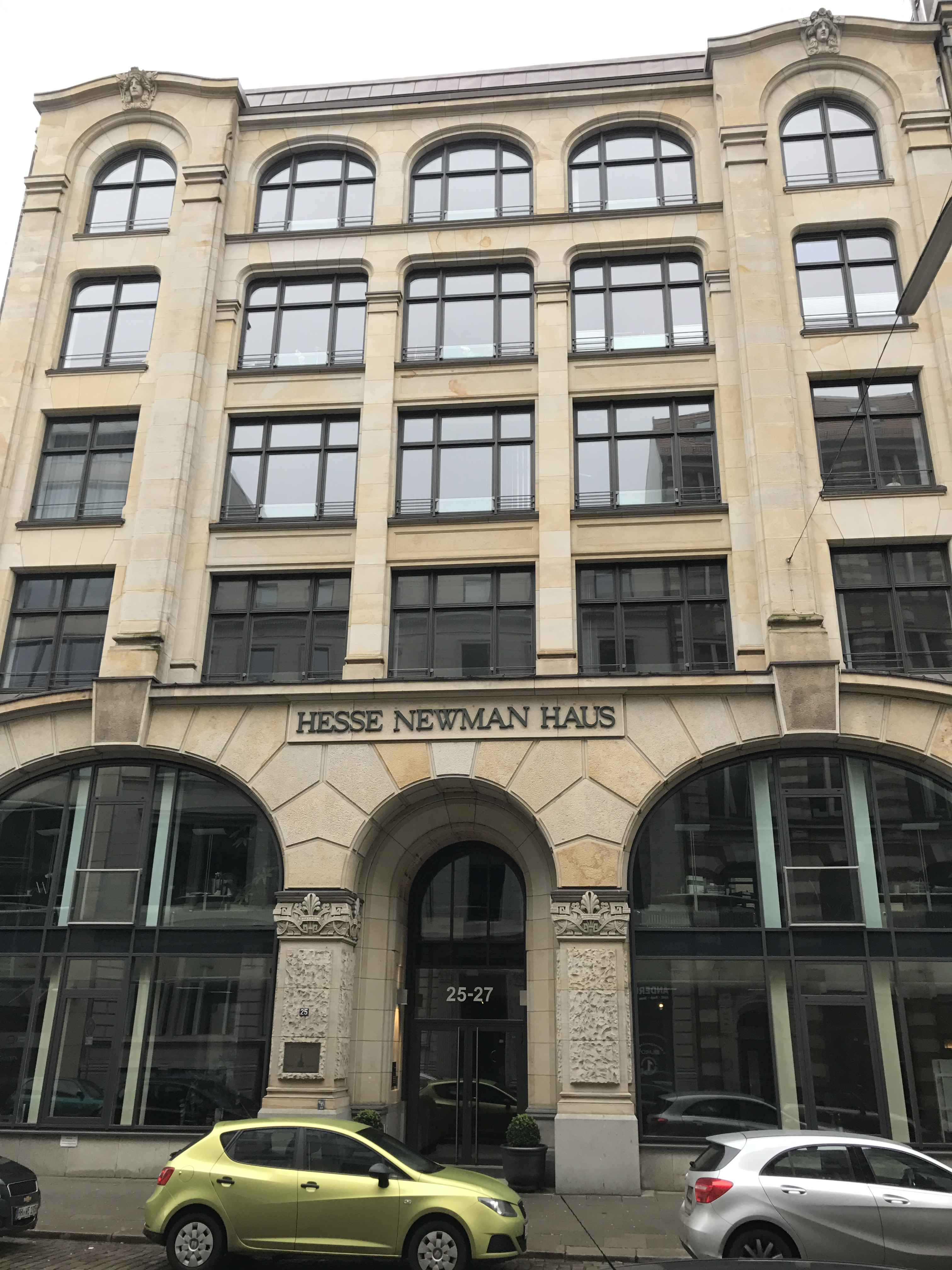 Former Office Building of Bankers Hesse Newman & Co. Hamburg, founded 1777